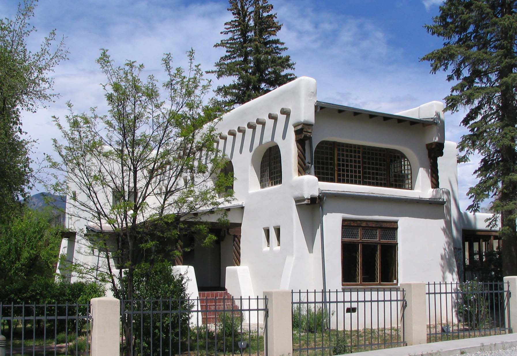 Nicolai Fechin House and Taos Art Museum at the Fechin Institute, Taos, New Mexico, USA. By Bill Johnson, May 2006.